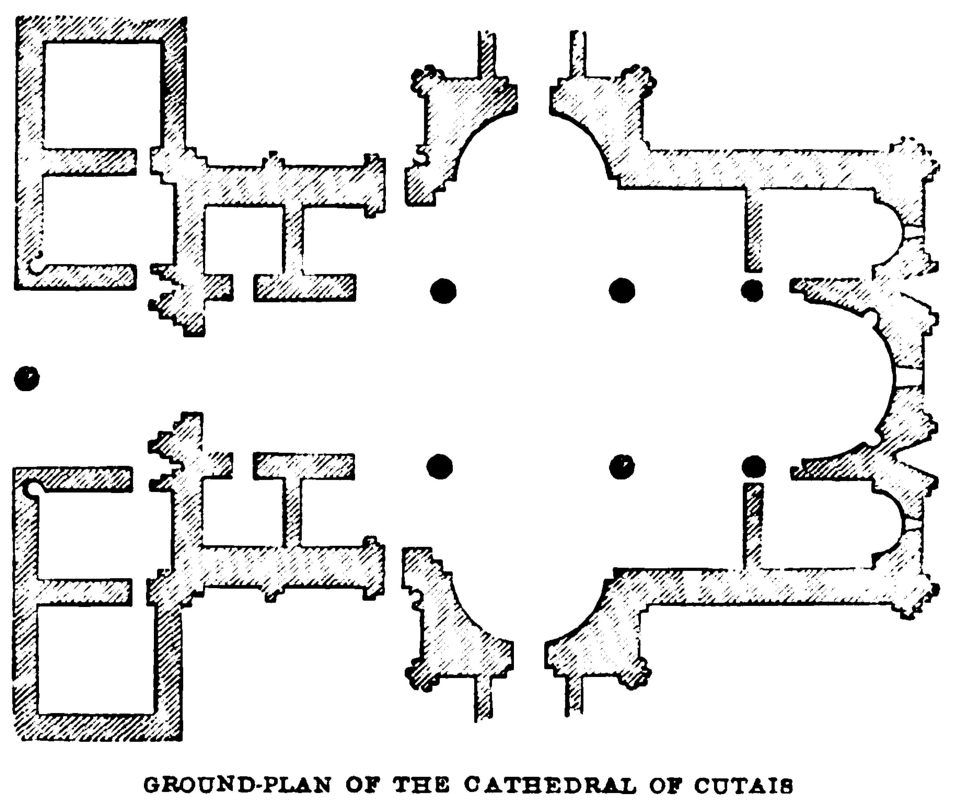 A history of the Holy Eastern Church: General introduction, Volume 1